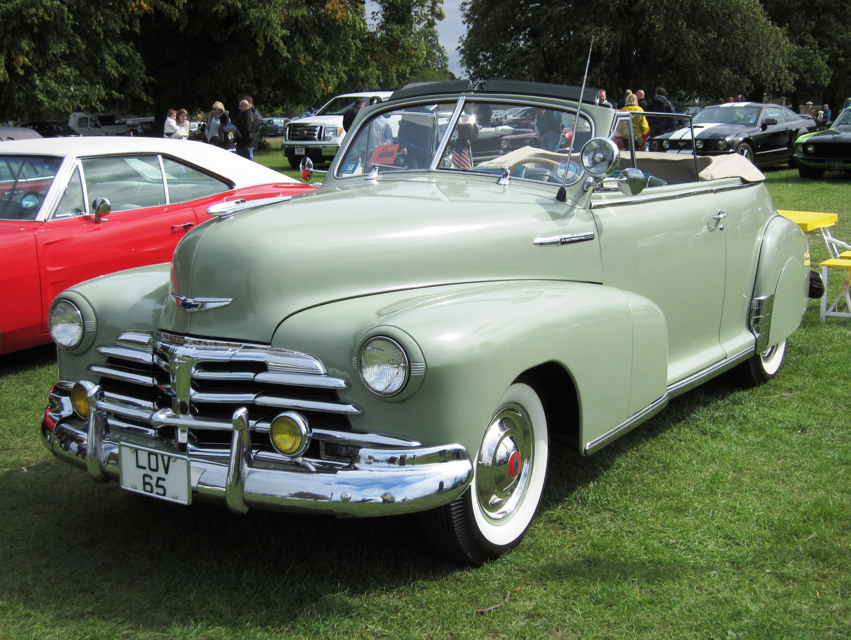 Chevrolet Fleetmaster cabriolet at Knebworth classic car show